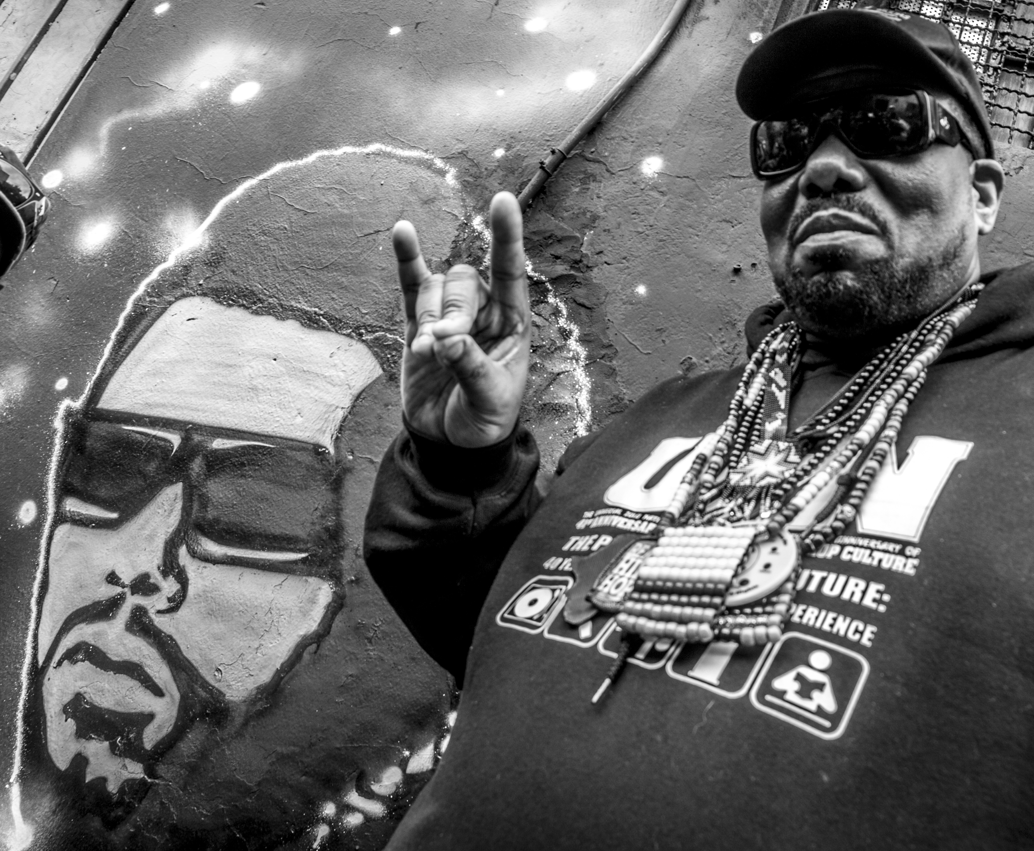 Afrika Bambaataa next to mural drawing with his face in Bogota during the World Summit of Arts and Culture for Peace in Colombia